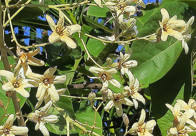 Known as Spanish Elm in English as as Cypre or Capa Prieto in Spanish. Widespread in the Neotropics and planted beyond for its flowers and its fine wood.